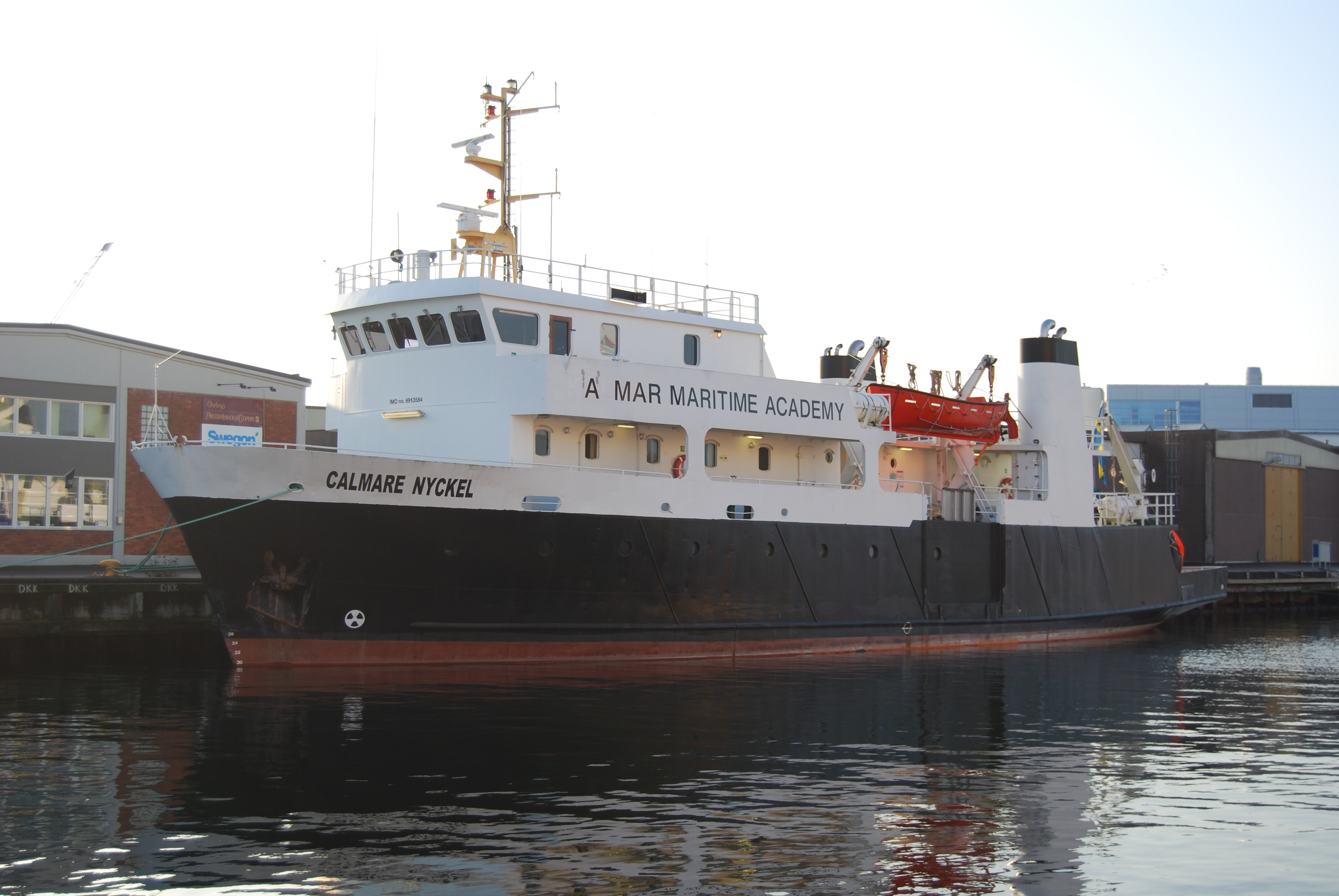 MS Calmare Nyckel, owned by the Kalmar Maritime Academy.